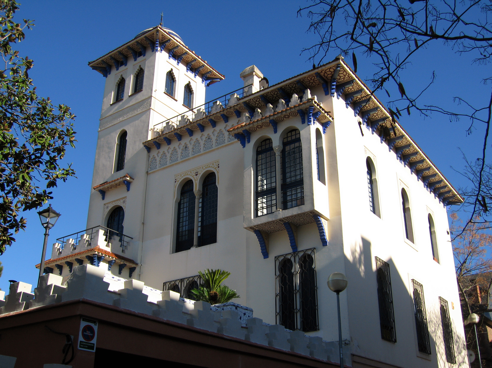 Casa Generalife in Sant Cugat del Vallès (Catalonia).